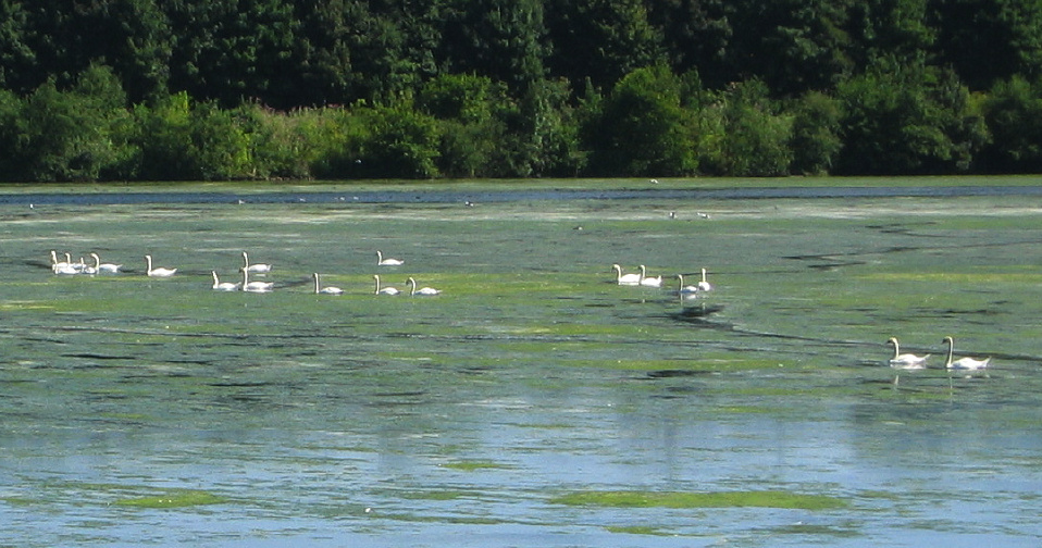 Masses of Elodea canadensis and Elodea nuttallii, Hengsteysee, North Rhine-Westphalia, Germany.